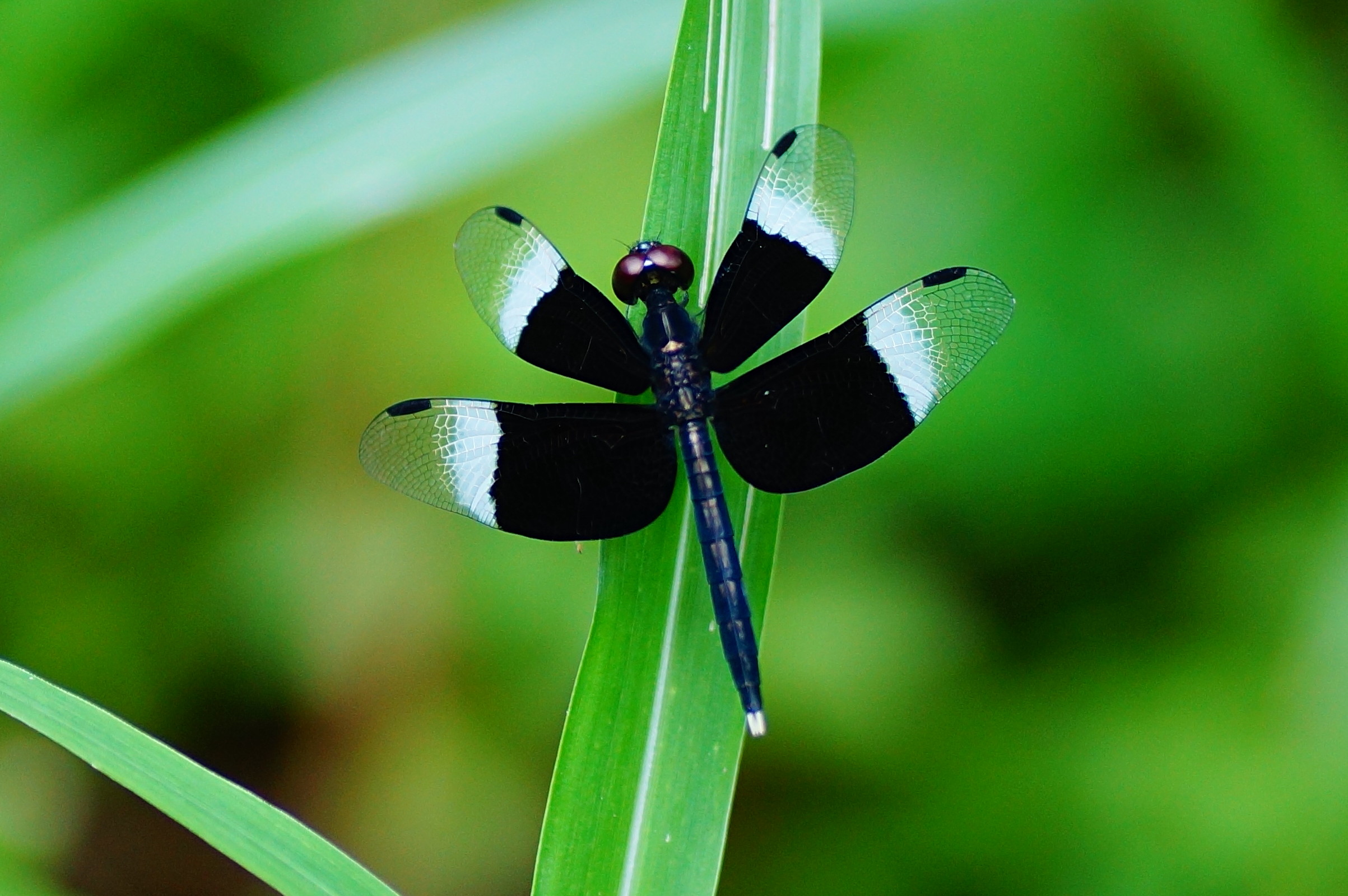 Neurothemis tullia